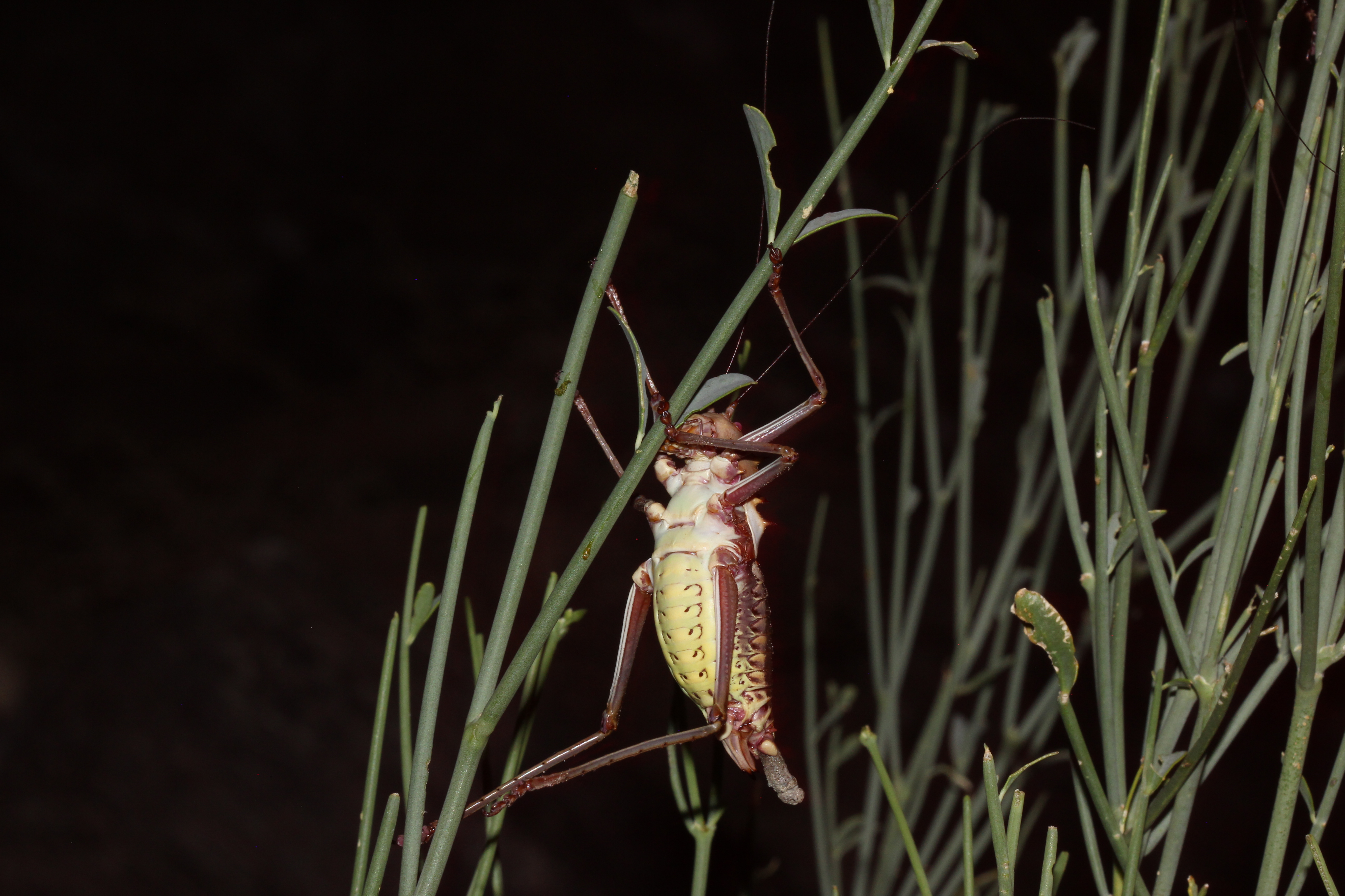 Acanthoplus longipes mature female, ventral view on scrub at night.